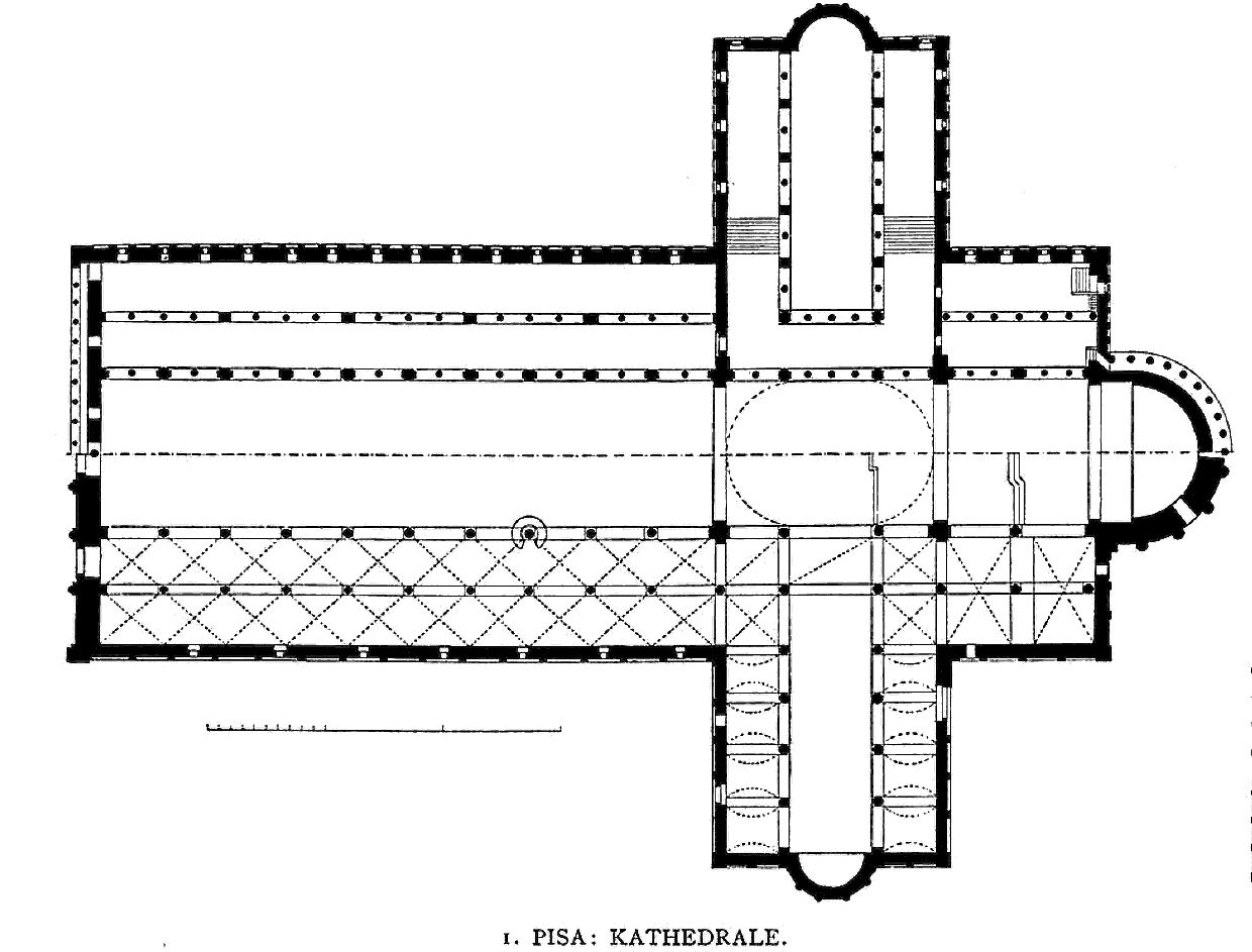 Plan of the cathedral of Pisa, horizontal combination of various levels